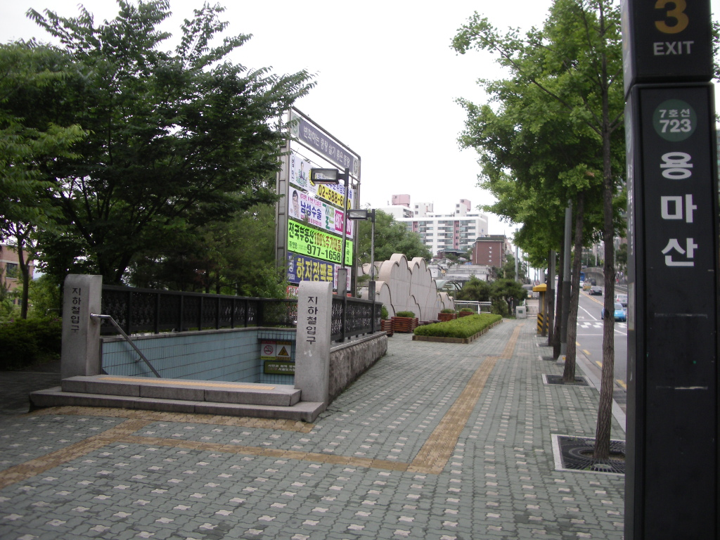 Yongmasan Station no.3 entrance